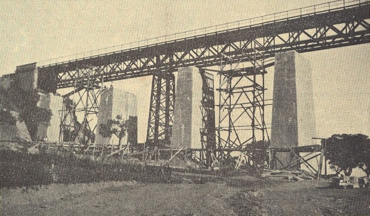 Old Quinta Nova Railway Bridge, in the Alentejo Railway, in Portugal. The pillars in the foreground belong to a new bridge in masonry, then in construction, that would replace the old one. This photograph was taken in June 1933. This photograph was originally published in the Gazeta dos Caminhos de Ferro No. 1129, of the 1st January 1935, and scanned by the Hemeroteca Municipal de Lisboa.